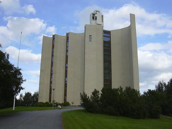 Kaleva Church in Tampere, Finland Architects: Reima and Raili Pietilä Design competition: 1959 Constructed: 1964–1966